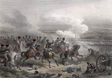 Battle of Fuentes de Oñoro resulting in a bloody stalemate between the French and British in 1811.